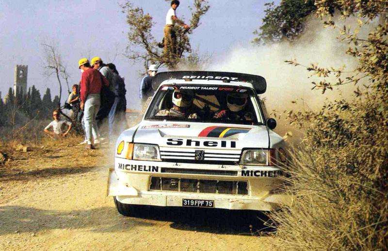 Juha Kankkunen and co-driver Juha Piironen on a Peugeot 205 Turbo 16 E2 at the 1986 Rallye Sanremo.